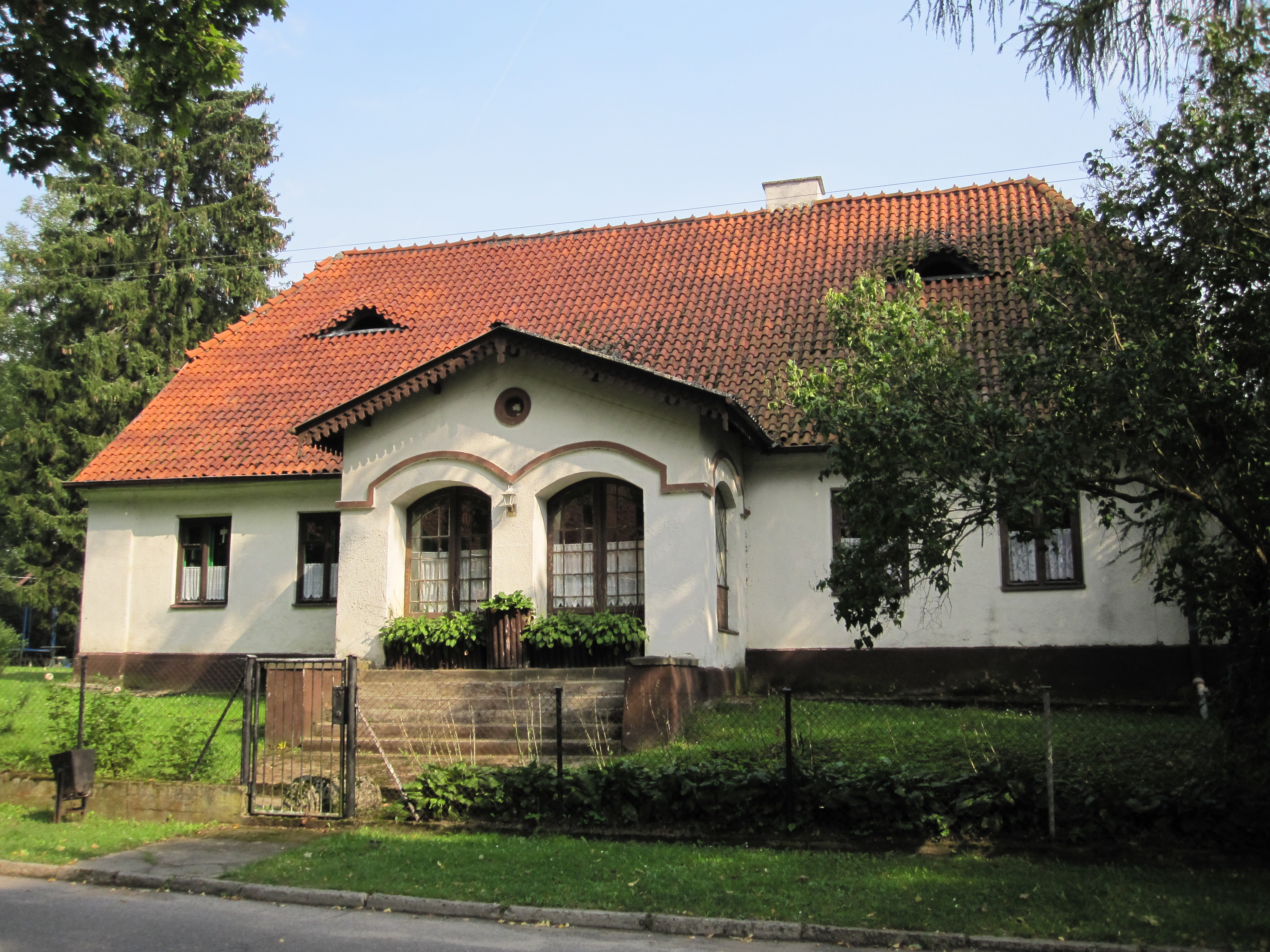 Lutheran church in Sorkwity